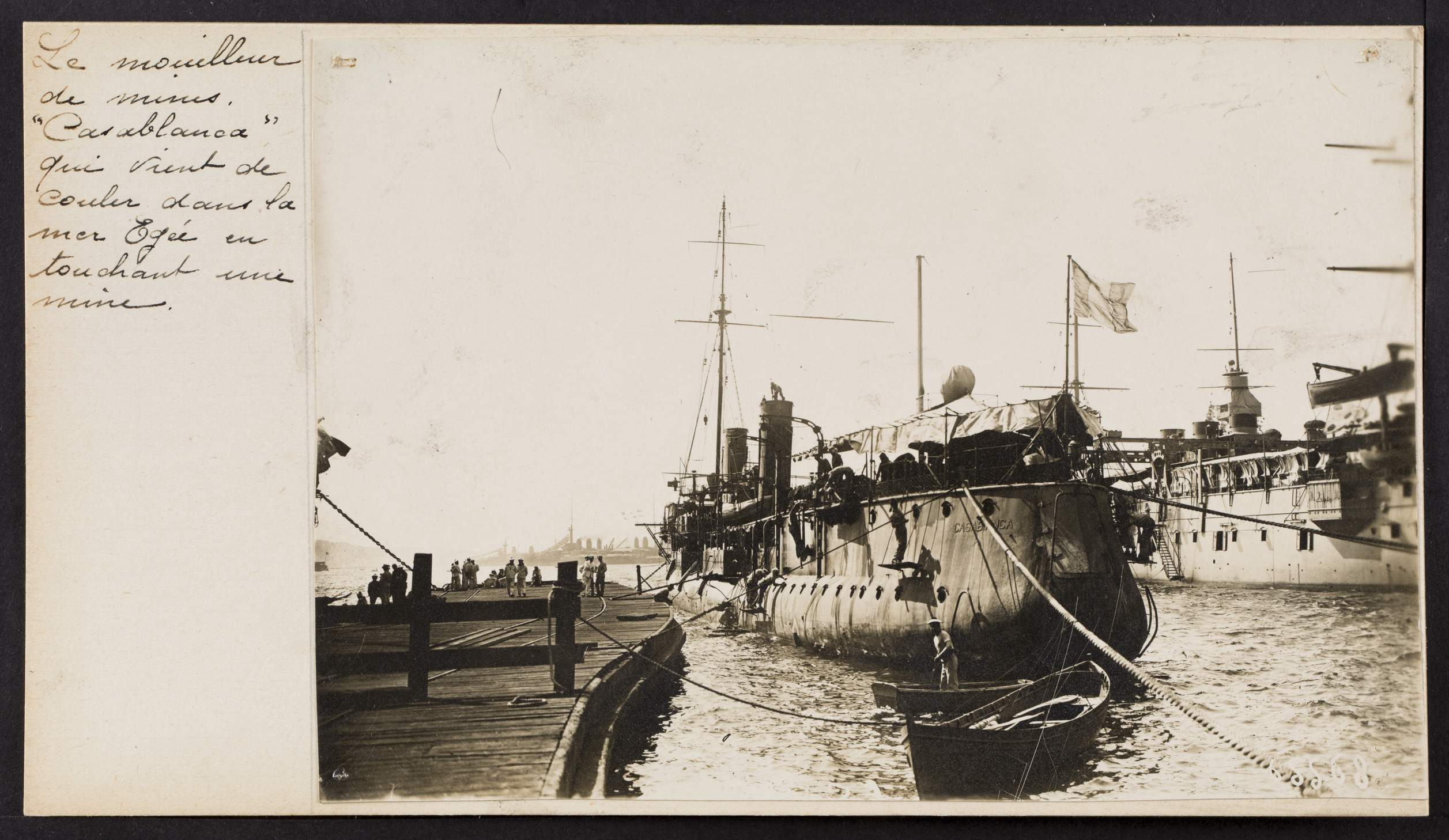 Le mouilleur de mines « Casablanca ».